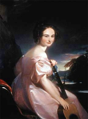 Painting of Octavia Celestia Valentine Walton while her family was living in Pensacola, Florida. They relocated to nearby Mobile, Alabama in 1835, where she married Dr. Henry Le Vert. She later became a noted socialite and author in that city. She was best known then simply as Madame Le Vert.